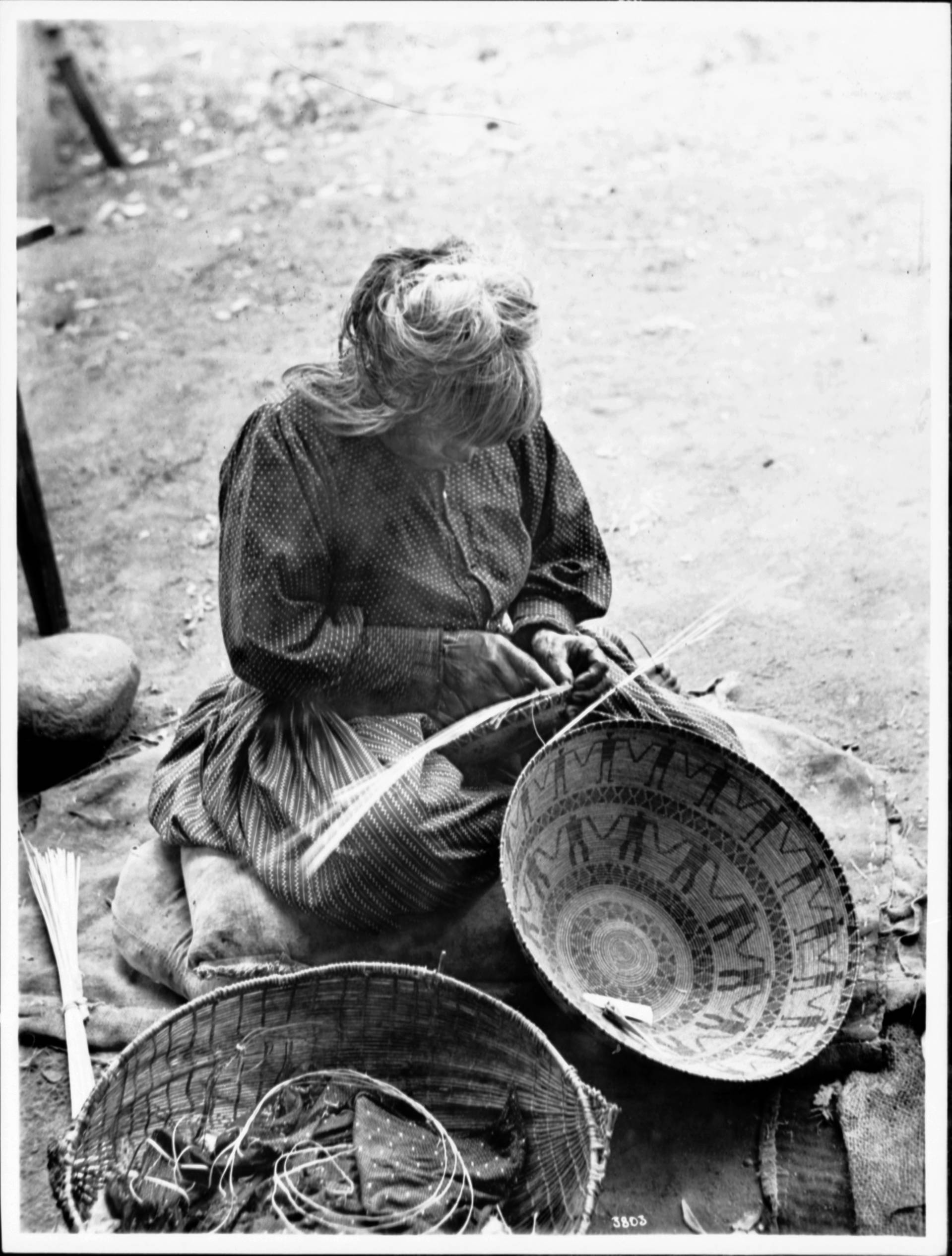 Yokut Indian woman basket maker, Tule River Reservation near Porterville, California, ca.1900 Photograph of a Yokut Indian woman basket maker, Tule River Reservation near Porterville, California, ca.1900. She sits on a half-filled sack on the ground outside working on a large shallow basket with a human figure pattern in her lap. Basket making supplies sit in a large round basket in front of her. A sheaf of straws lays at her side. Call number: CHS-3803 Photographer: James, George Wharton Filename: CHS-3803 Coverage date: circa 1900 Part of collection: California Historical Society Collection, 1860-1960 Type: images Geographic subject (city or populated place): Tule River Reservation; Porterville Repository name: USC Libraries Special Collections Accession number: 3803 Microfiche number: 1-162-; 1-185- Archival file: chs_Volume95/CHS-3803.tiff Part of subcollection: Title Insurance and Trust, and C.C. Pierce Photography Collection, 1860-1960 Repository address: Doheny Memorial Library, Los Angeles, CA 90089-0189 Geographic subject (country): USA Format (aacr2): 3 photographs : photonegative, photoprints, b&w ; 13 x 10 cm., 21 x 26 cm., 21 x 17 cm. Rights: Digitally reproduced by the USC Digital Library; From the California Historical Society Collection at the University of Southern California Subject (adlf): tribal areas Project: USC Repository Contributing entity: California Historical Society Date created: circa 1900 Publisher (of the digital version): University of Southern California. Libraries Format (aat): negatives (photographic); photographic prints; photographs Geographic subject (state): California Legacy record ID: chs-m16385; USC-1-1-1-14008 Access conditions: Send requests to address or e-mail given. Phone (213) 821-2366; fax (213) 740-2343. Subject (file heading): Indians -- Yokut Subject (lcsh): Indians of North America; Yokuts Indians; Women; Basket makers Subject: Yokut Indians -- Basketry